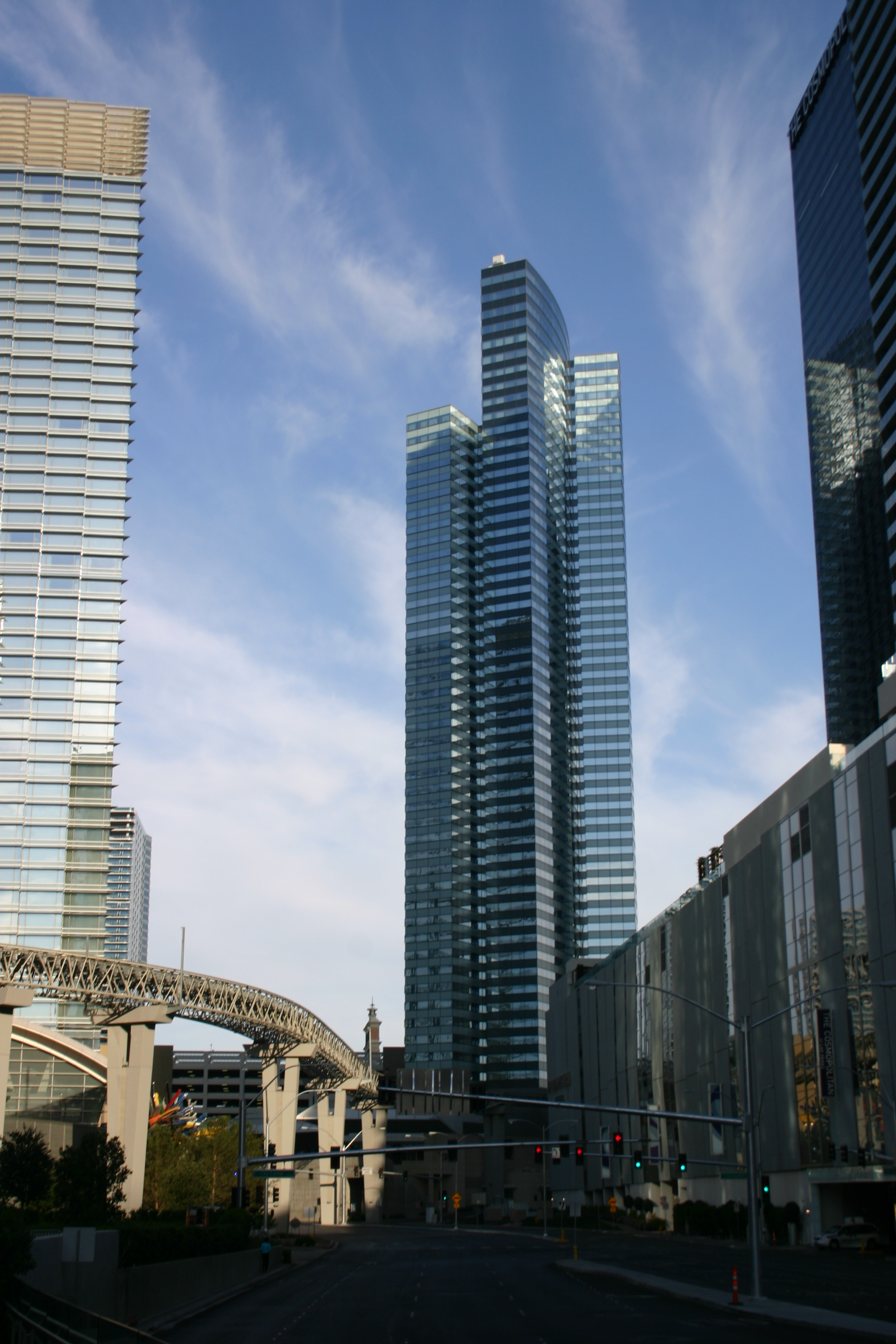 Photo of the Vdara Hotel in Las Vegas, Nevada